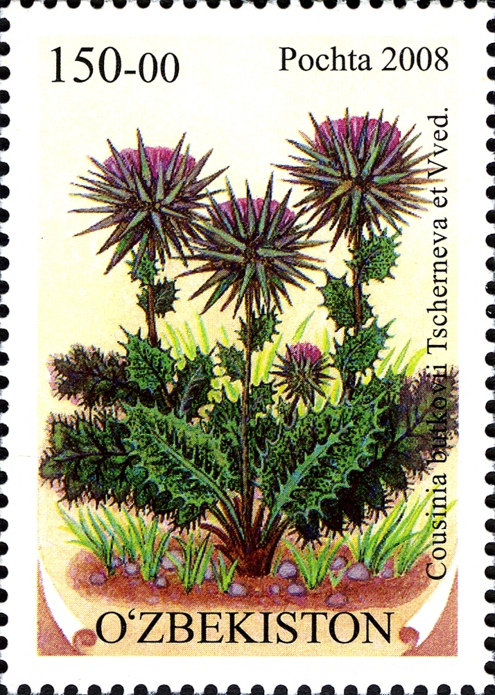 Stamps of Uzbekistan, 2008